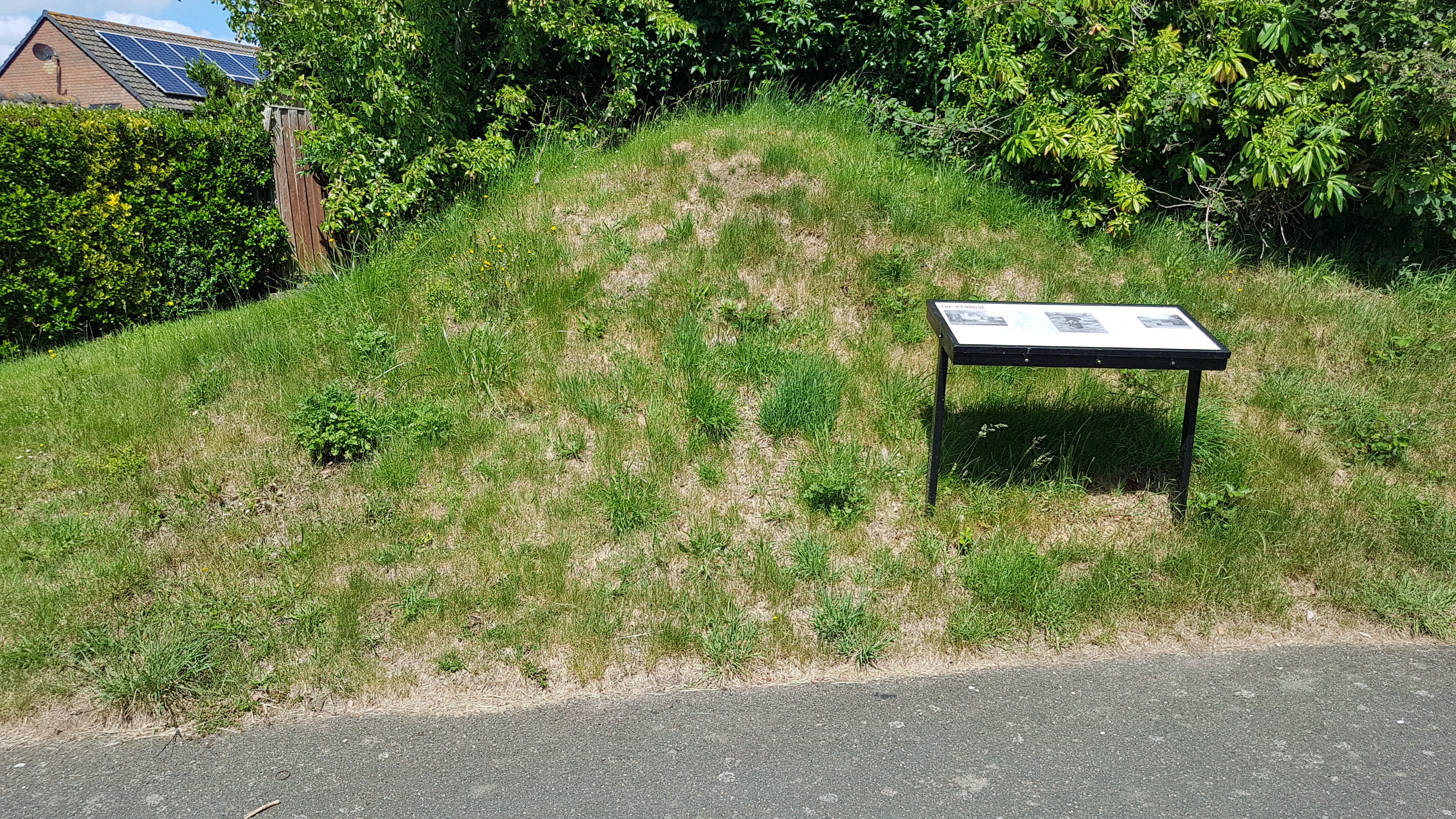 The original icehouse, buried to protect it, for possible future restoration.